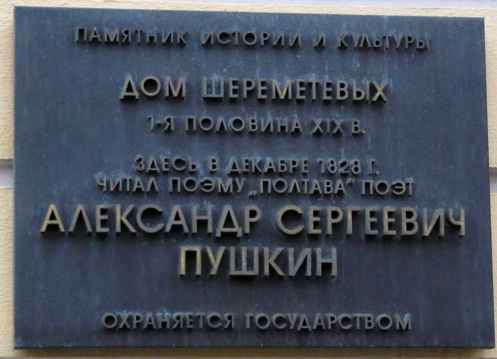 In December 1828 the poet Alexander Pushkin was reciting his poem "Poltava" here. Moscow, Povarskaya str.,27